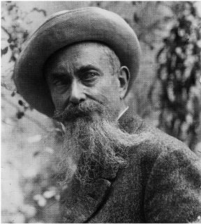 A picture of Luigi Illica